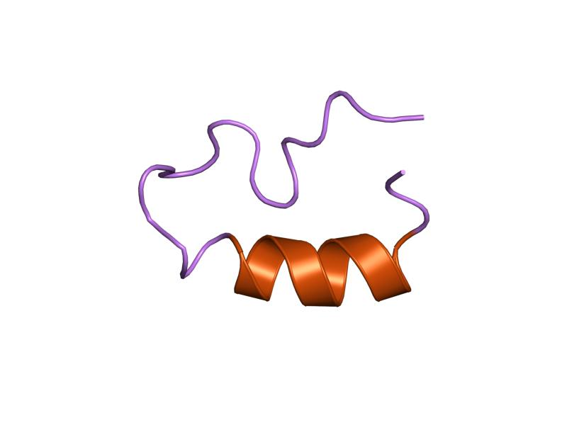 Cartoon representation of the molecular structure of protein registered with 1k18 code.